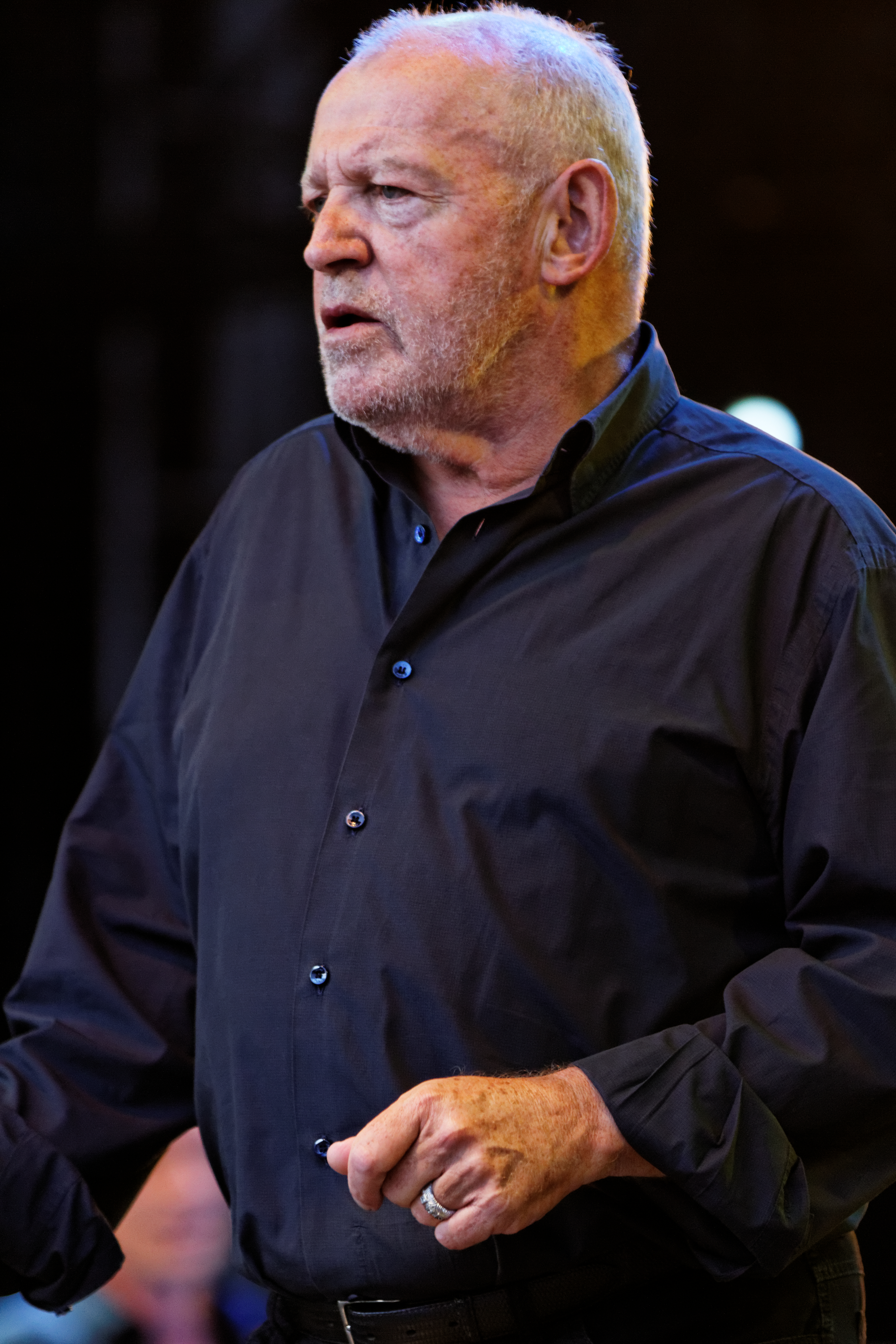 Joe Cocker concert Landaoudec on stage at the end of the World festival in Crozon in Brittany (France). Joe Cocker en concert sur la scène Landaoudec lors du festival du bout du Monde à Crozon dans le Finistère (France).